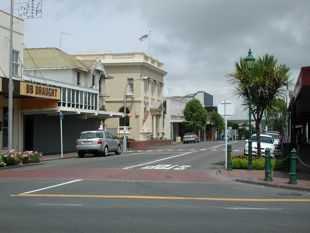 Town center of Eltham, New Zealand.